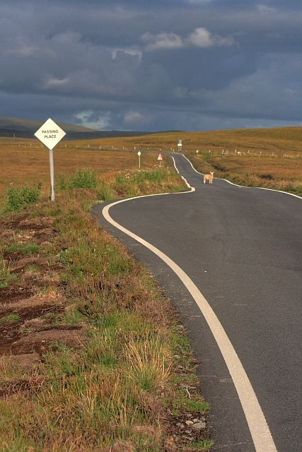 Passing Place On the B884.